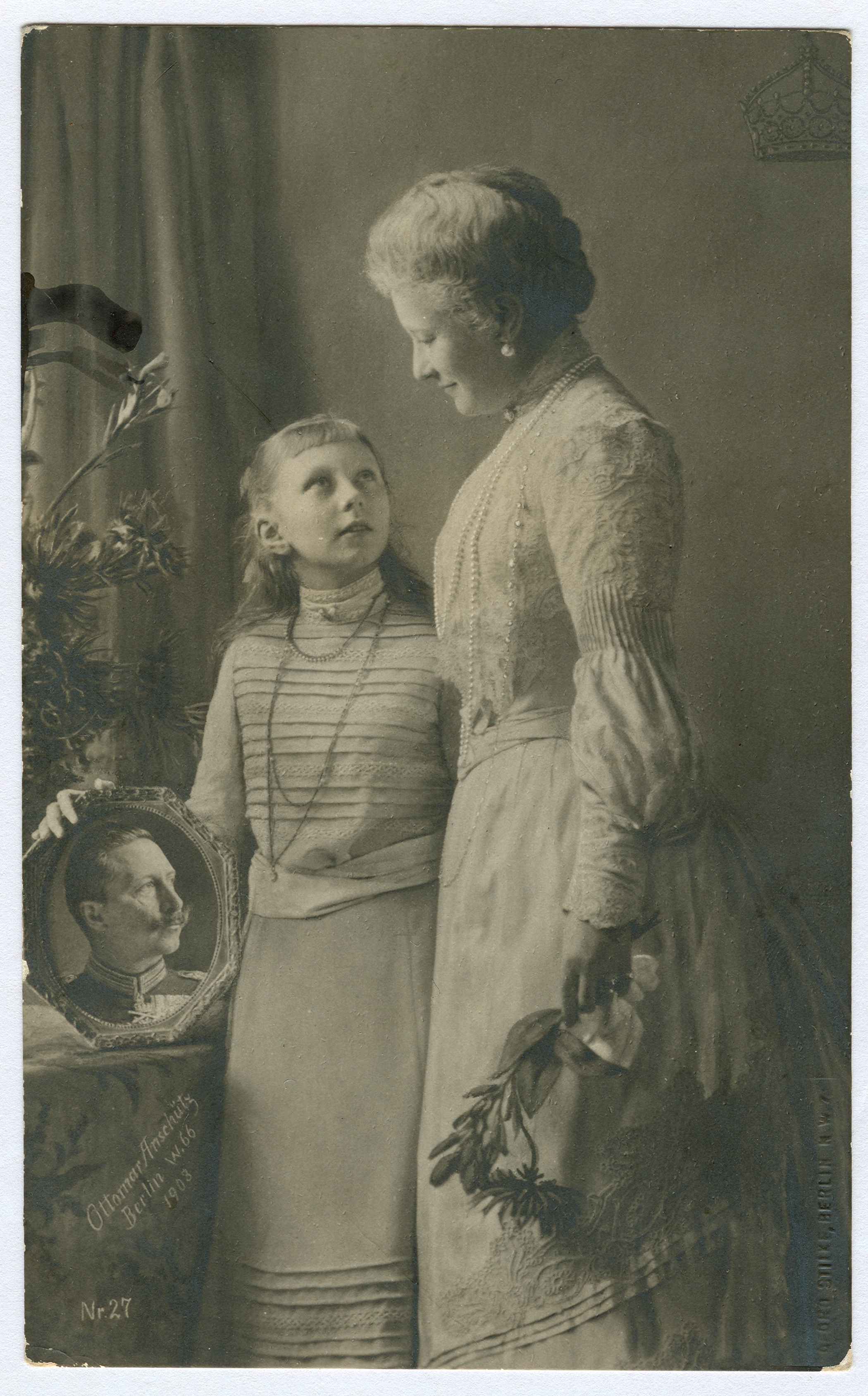 Postcard by Ottomar Anschütz